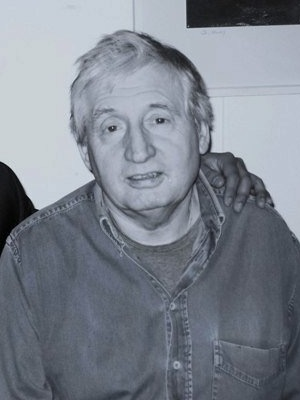 Storm Thorgerson with Brain Damage UK Contributor Ed Lopez-Reyes in 2009.